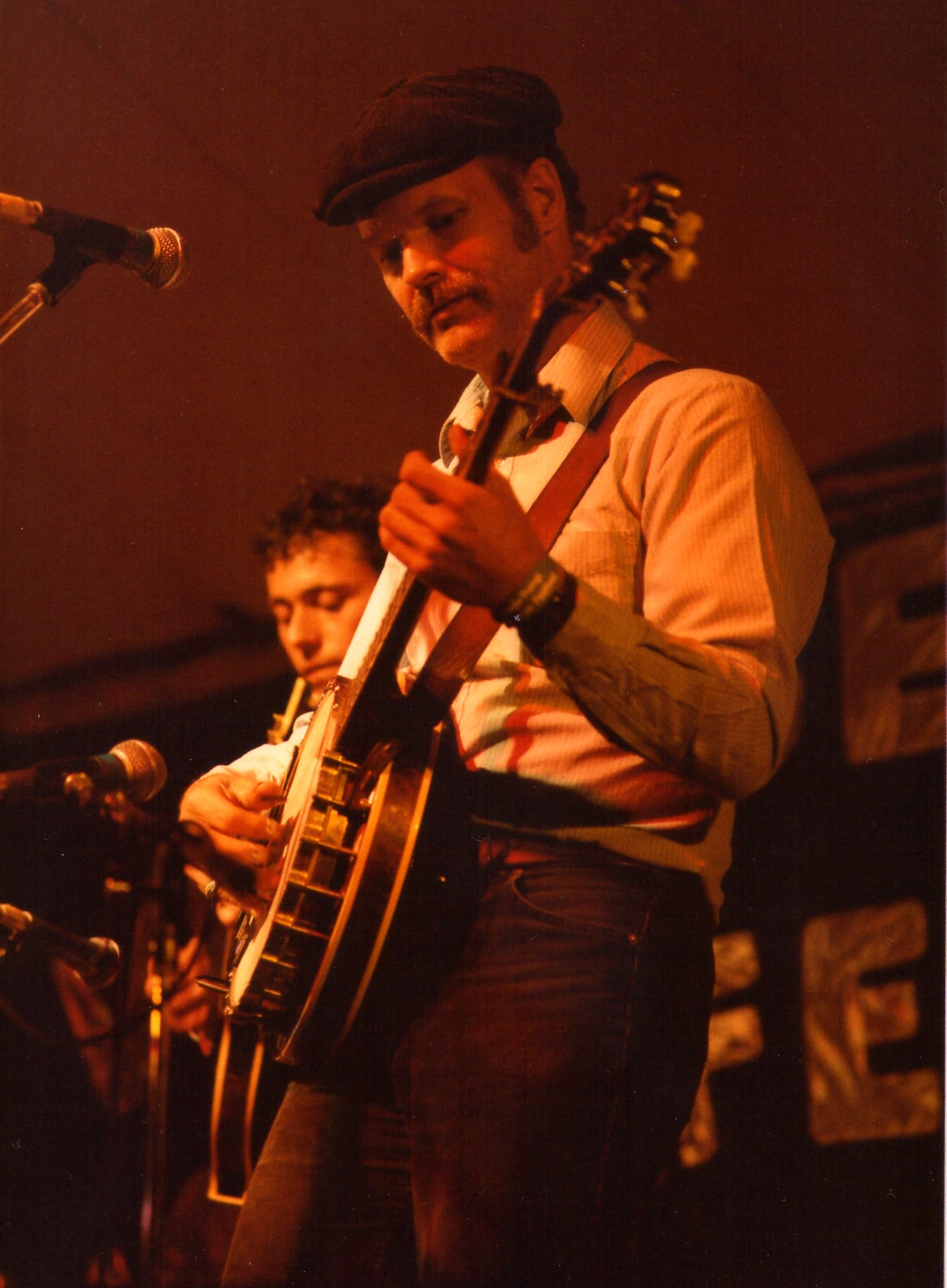 Bill Keith, banjoist on stage at the Cambridge Folk Festival, July 1985 (photograph by Tony Rees)